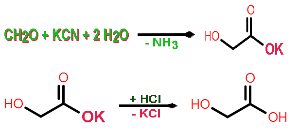 Glycolic acid synthesis